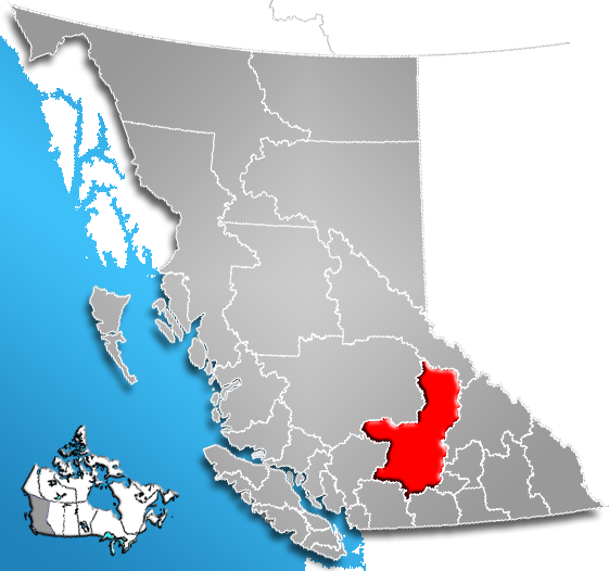 Location of Thompson-Nicola Regional District, British Columbia